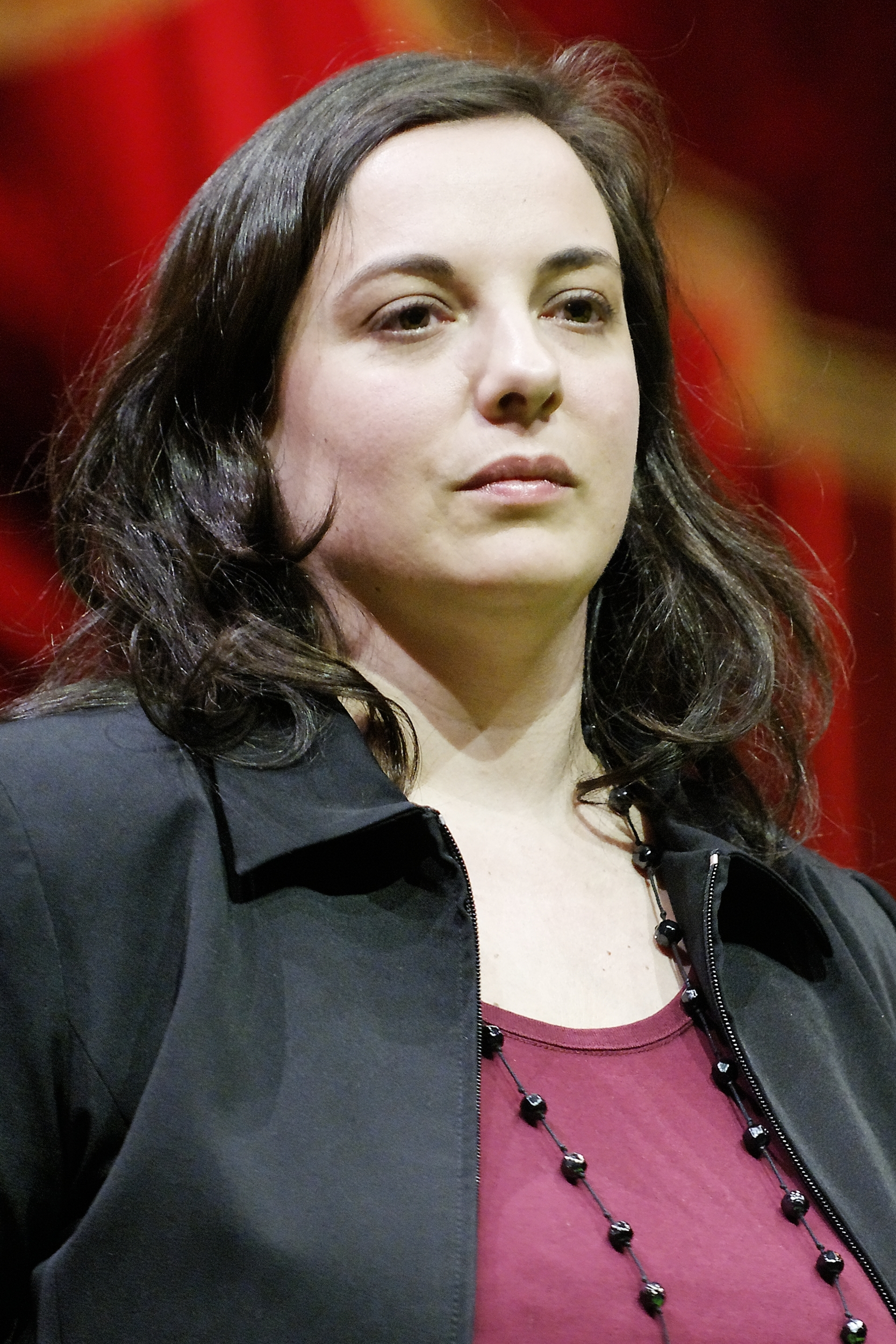 Emmanuelle Cosse at Europe Écologie's closing rally of the 2010 French regional elections campaign at the Cirque d'hiver, Paris.